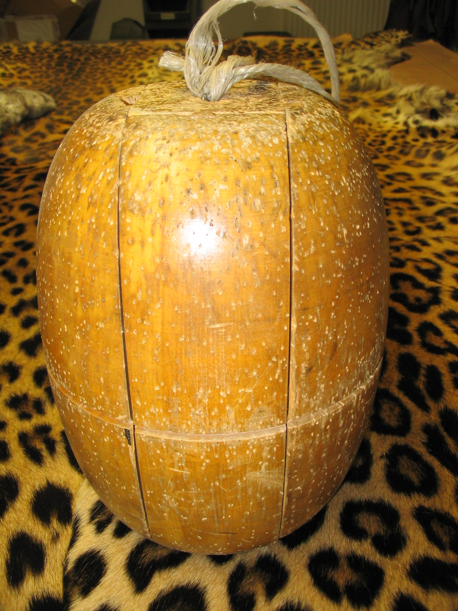 For fur muffs